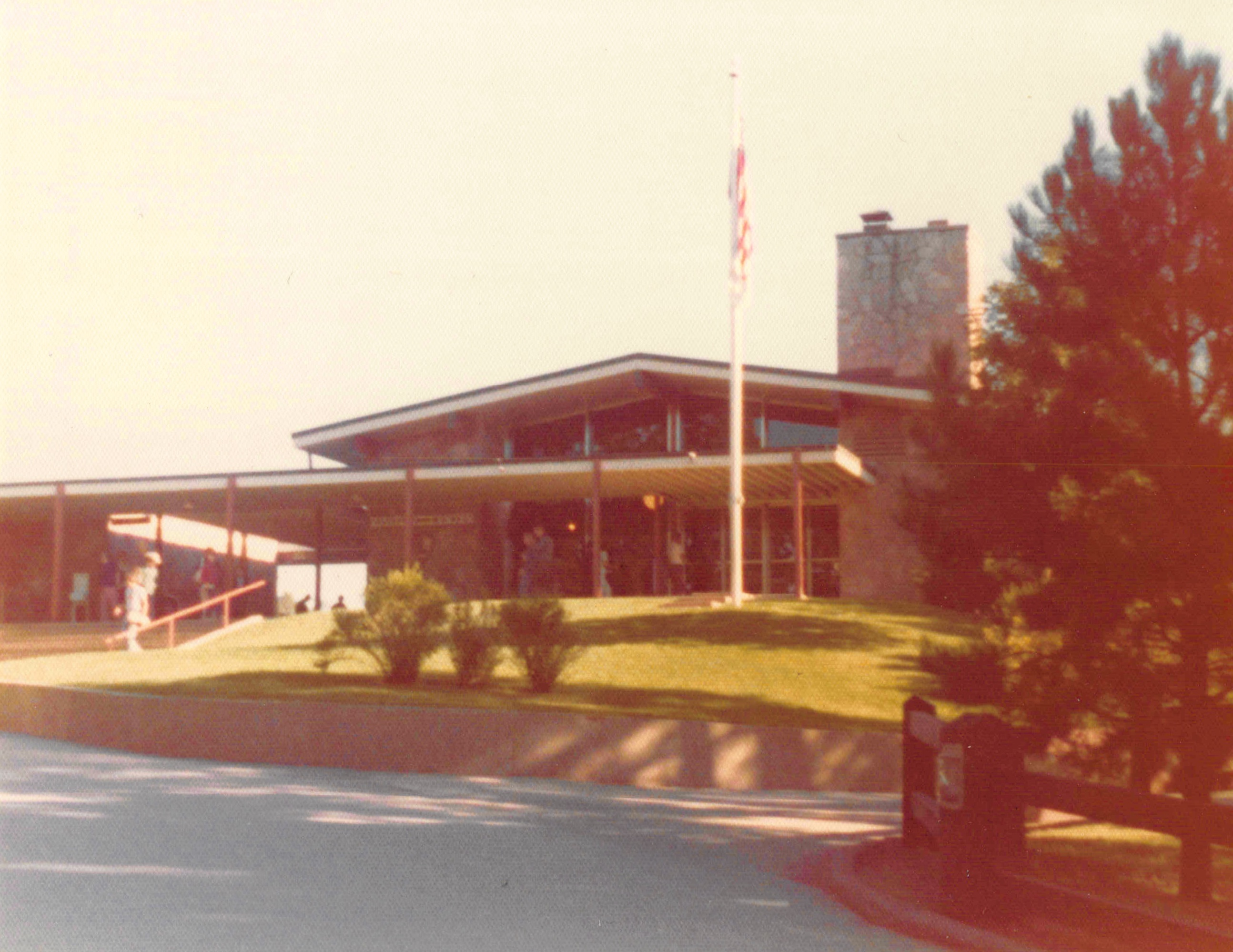 by Harold Spitznagel and Cecil Doty